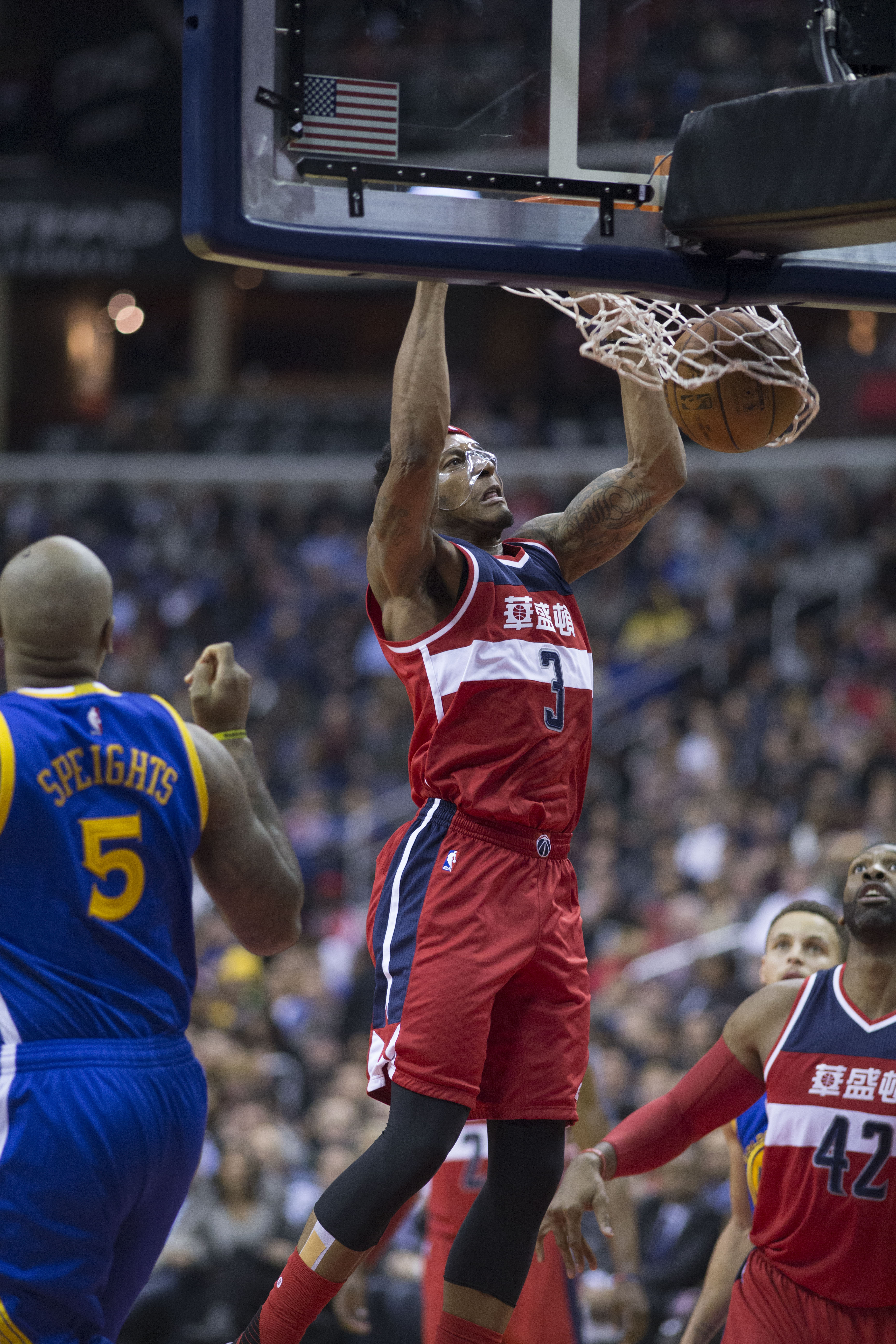 Warriors at Wizards 2/3/16